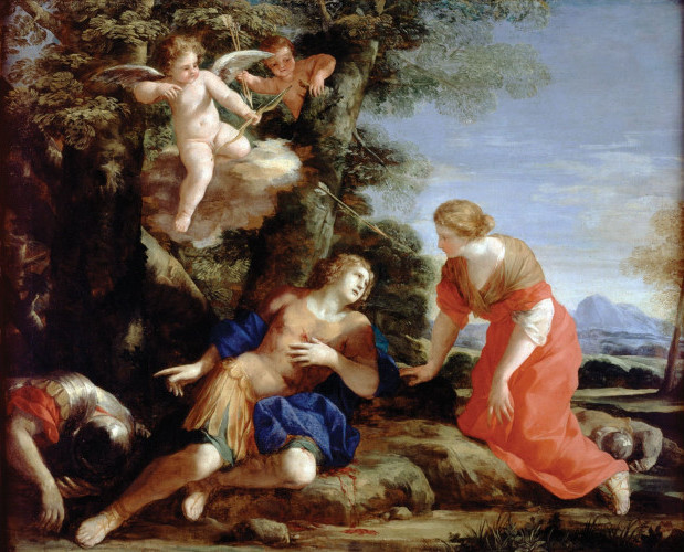 Angelica encountering the wounded Medoro, Giovanni Francesco Romanelli, 61.6 x 76.3 cm, Ashmolean Museum Oxford